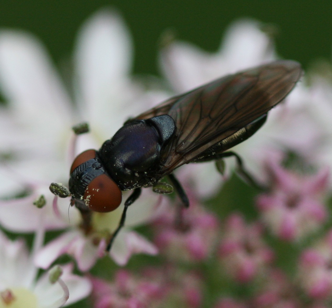 Chrysogaster solstitialis (female) - a hoverfly